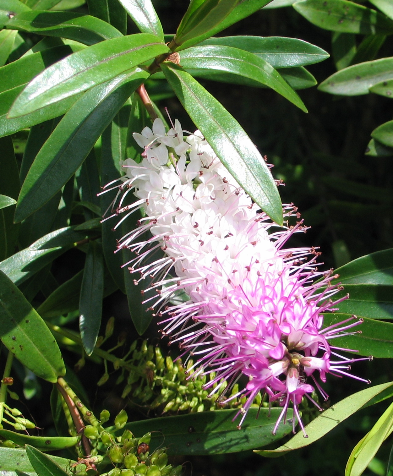 Hebe speciosa flower